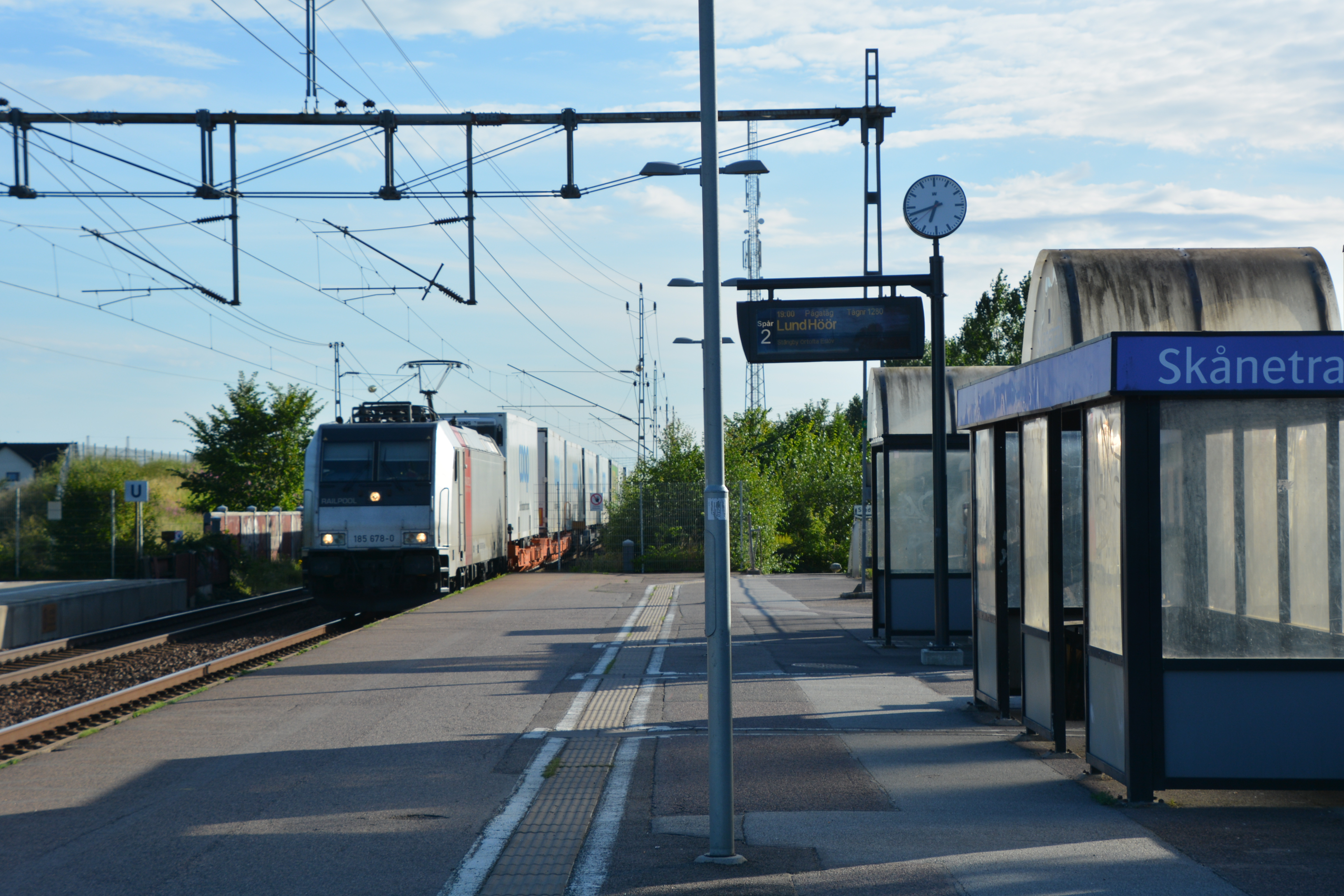 Rail Pool locomotive pasing Hjärup station in Skåne, Sweden